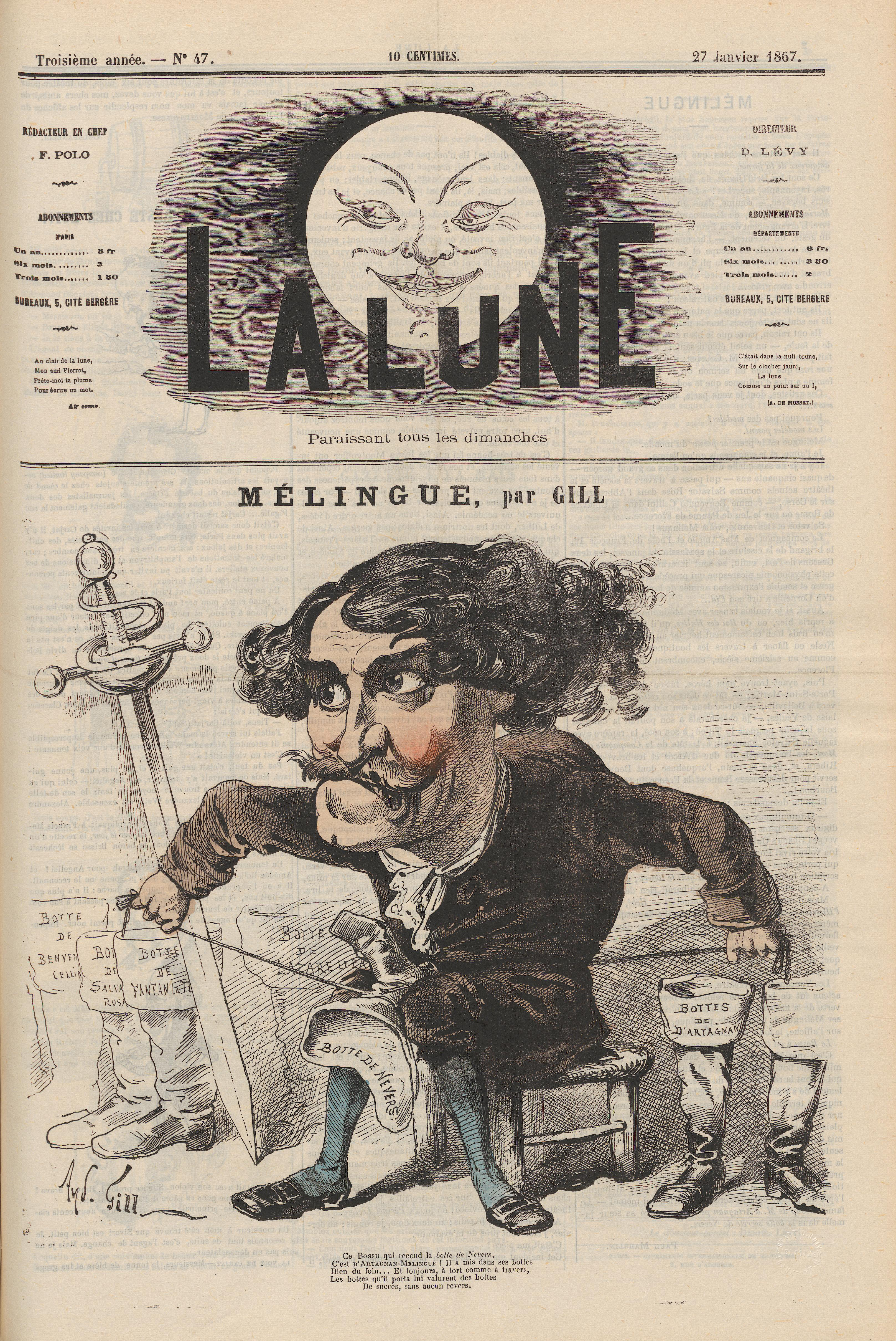 Étienne Mélingue (1807-1875), French actor, sculptor, painter; illustration by André Gill, published in « La Lune », January 27, 1867, hand-colored engraving